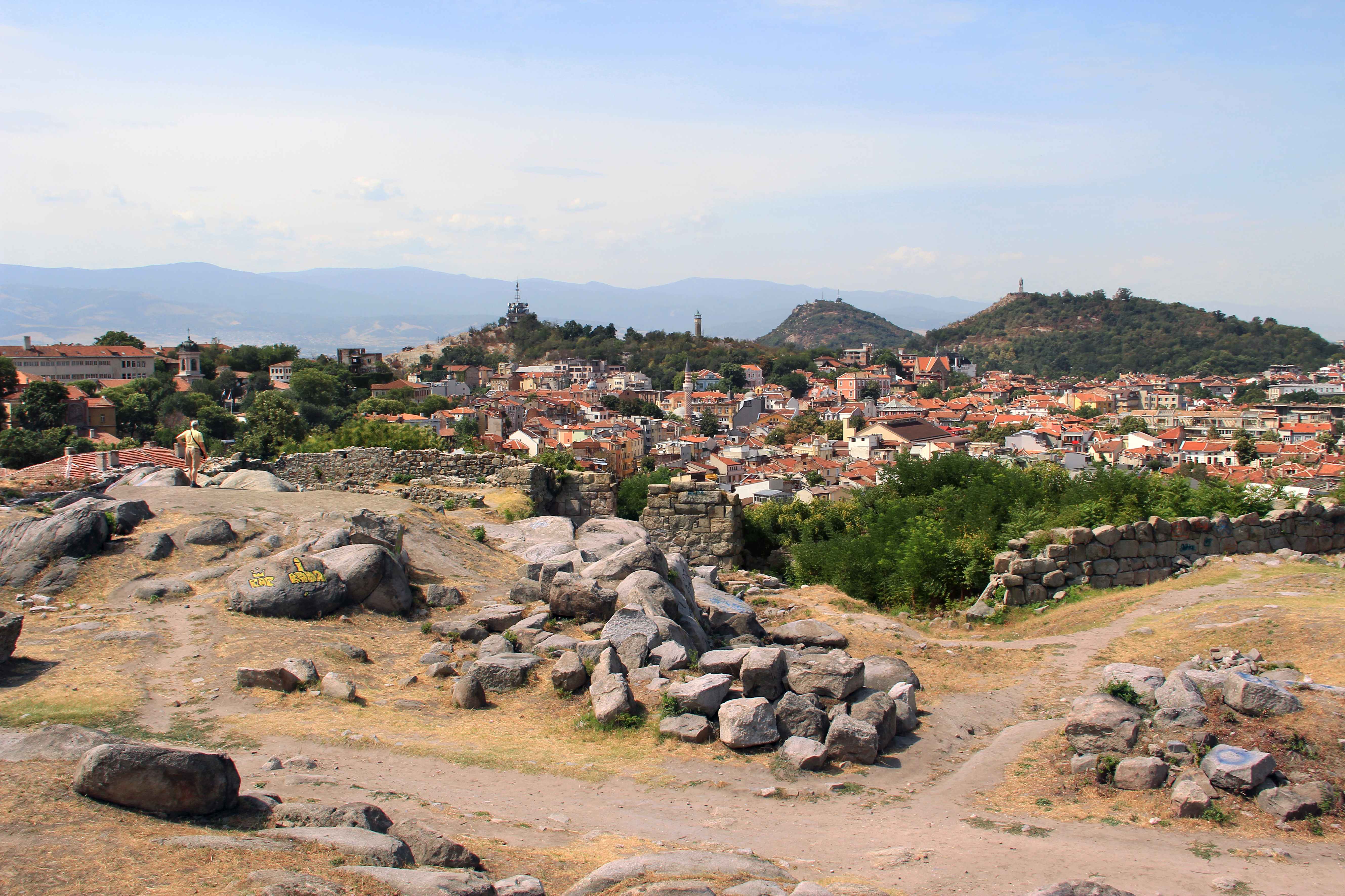 Plovdiv, panoramic view.